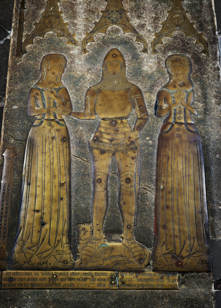 Monumental brass in St Saviour's Church, Dartmouth, Devon, of John Hawley (c.1340/50-1408) (alias Hauley) of Dartmouth, Devon, a wealthy ship owner, 14 times Mayor of Dartmouth and four times a Member of Parliament for Dartmouth. With his two wives.